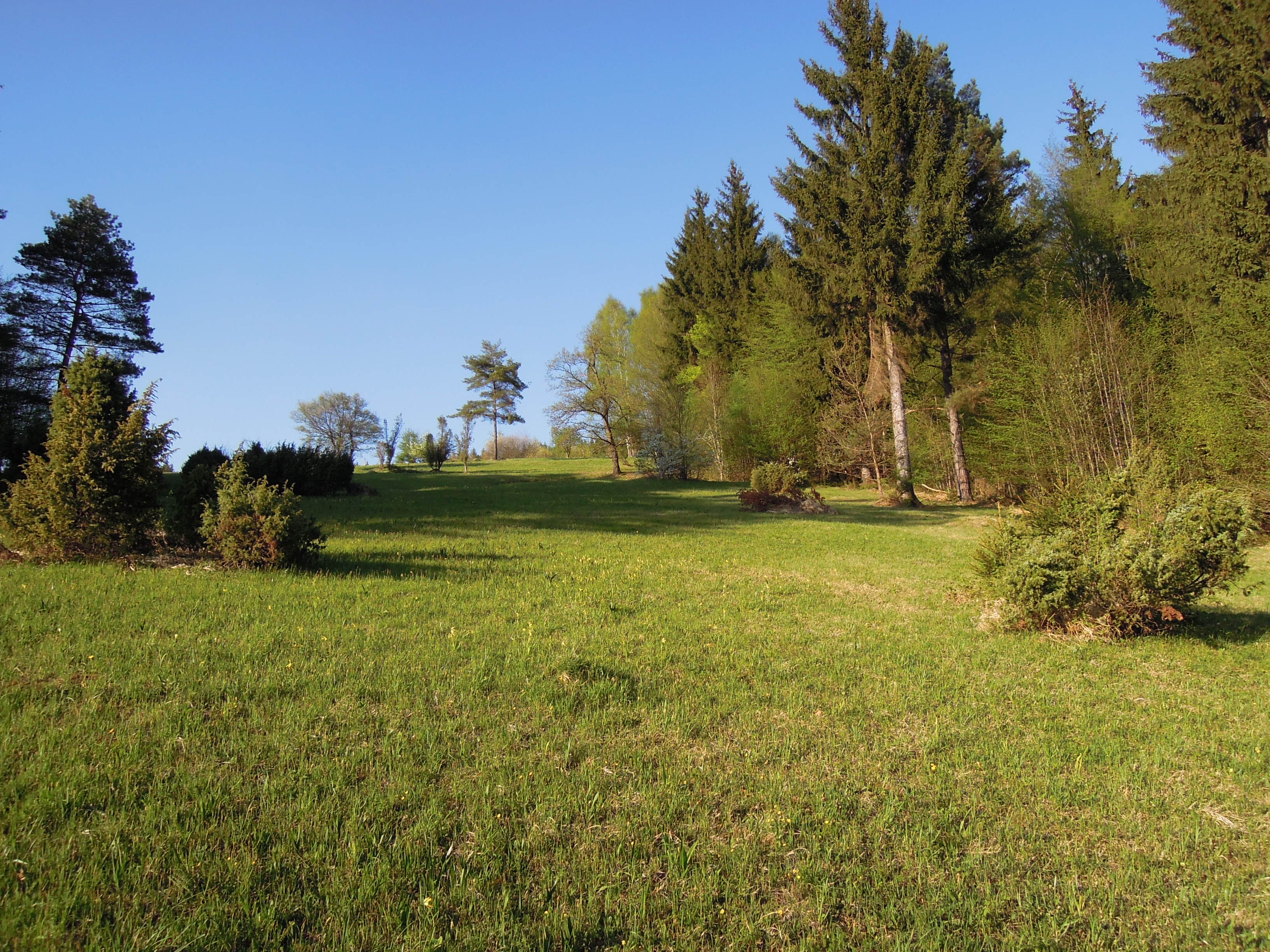 Ježůvka natural monument in Vsetín, Vsetín District, Zlín Region, Czech Republic